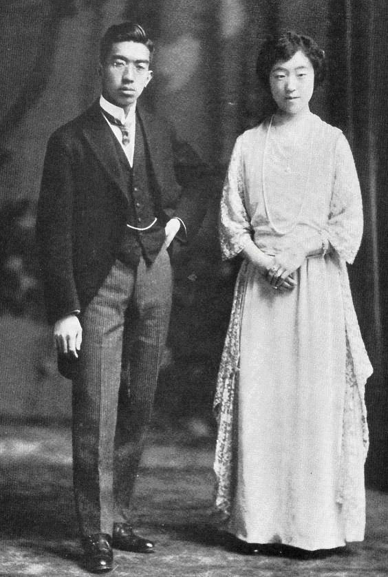 Emperor Hirohito and Empress Kōjun.A photograph just after marriage.